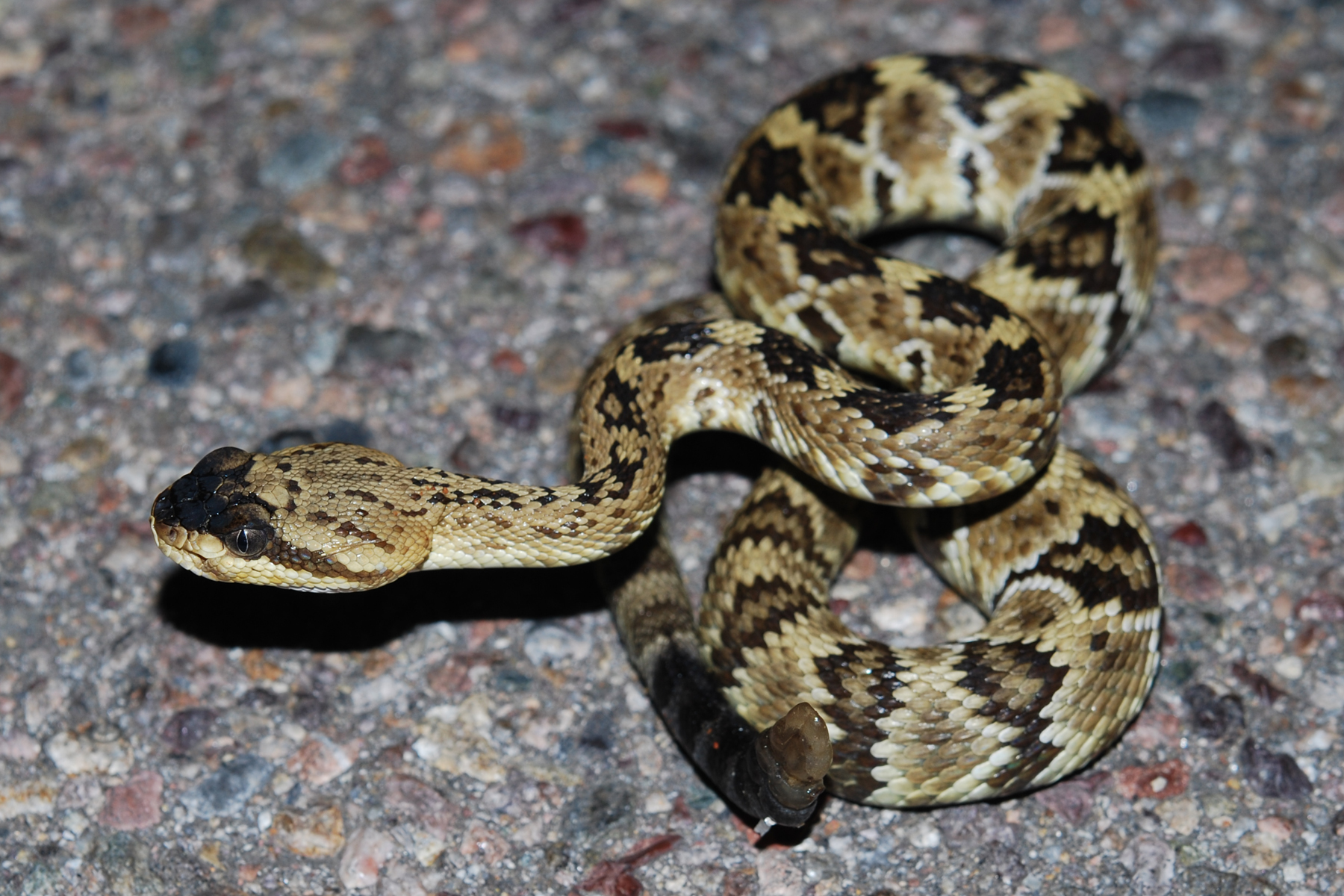 Viperidae: Crotalus molossus, juvenile Found in the Santa Rita mountains, SE Arizona